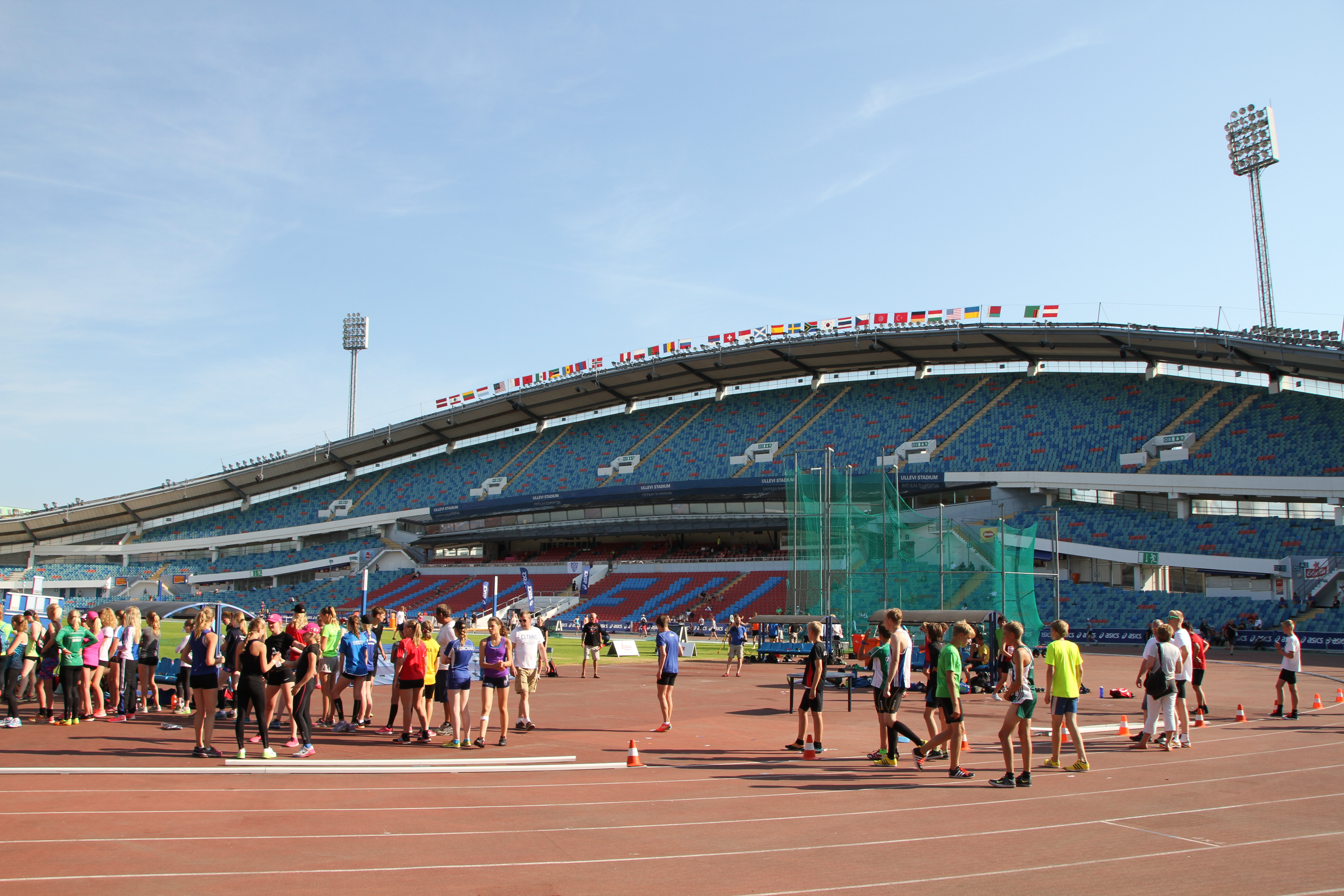 Ullevi Stadium, Gothenburg during the VU Games (VU-spelen) of 2015.